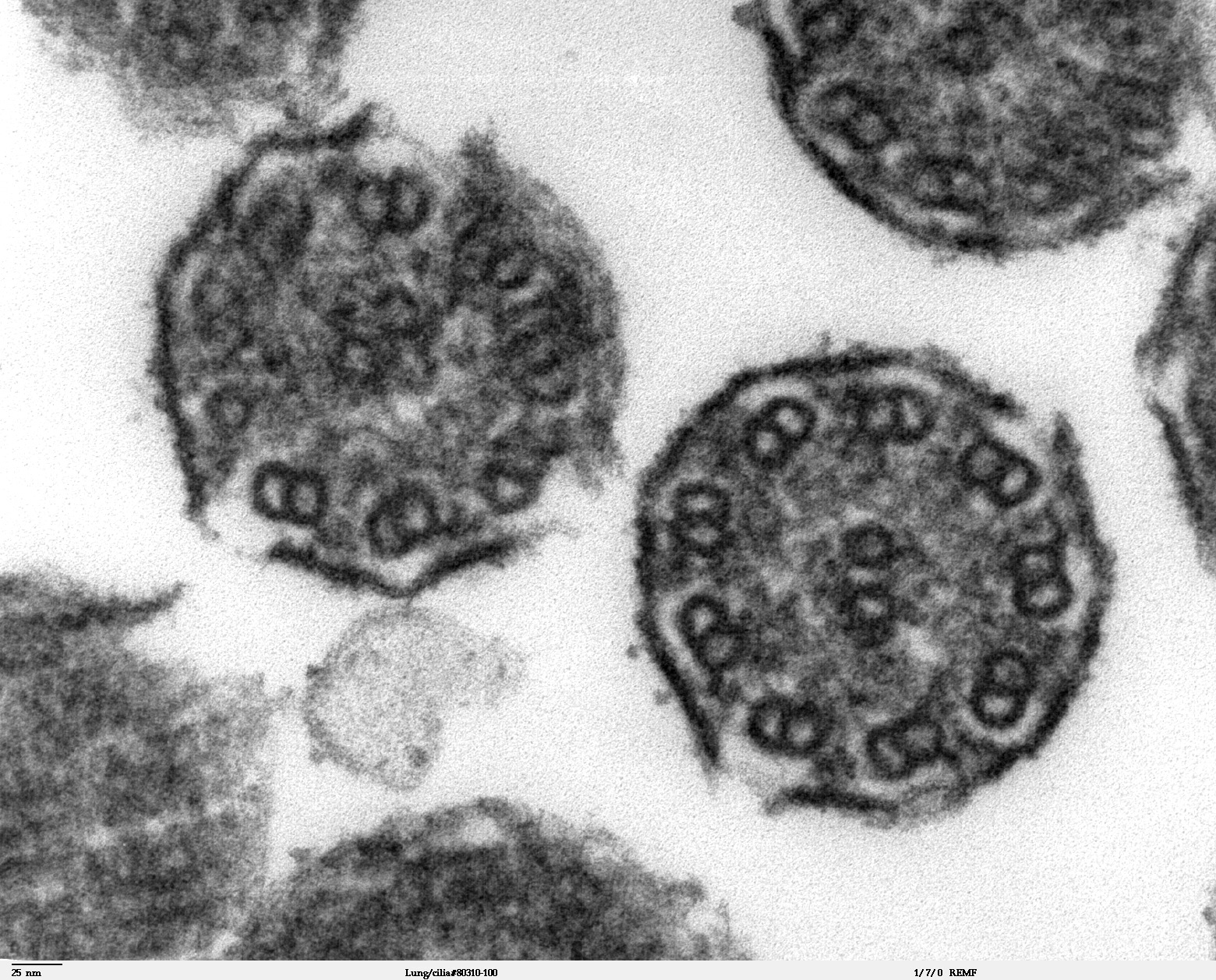 High magnification of "Lung cilia#80311-50" image. This image is a thin x-section cut through cilia. The inside of the cilium contain precisely arranged microtubles, the axoneme. The axoneme has a central unit containing two single microtubules and nine peripheral doublet microtubules (known as the "9+2"). Dynein sidearms project from the A tubule of each doublet. JEOL 100CX TEM